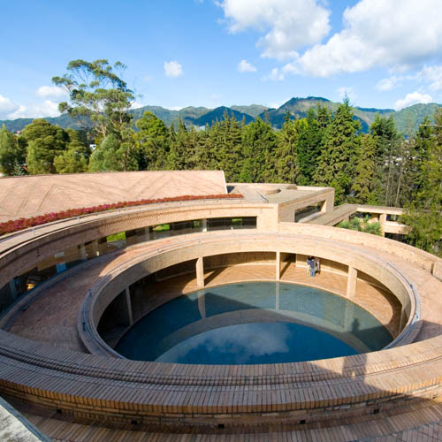 Rogelio Salmona architecure at national university, Bogotá.